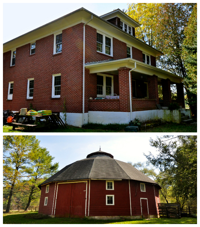 Blankenship Farm contributing buildings- Farmhouse and 14 sided barn. NRHP Reference # 89001808